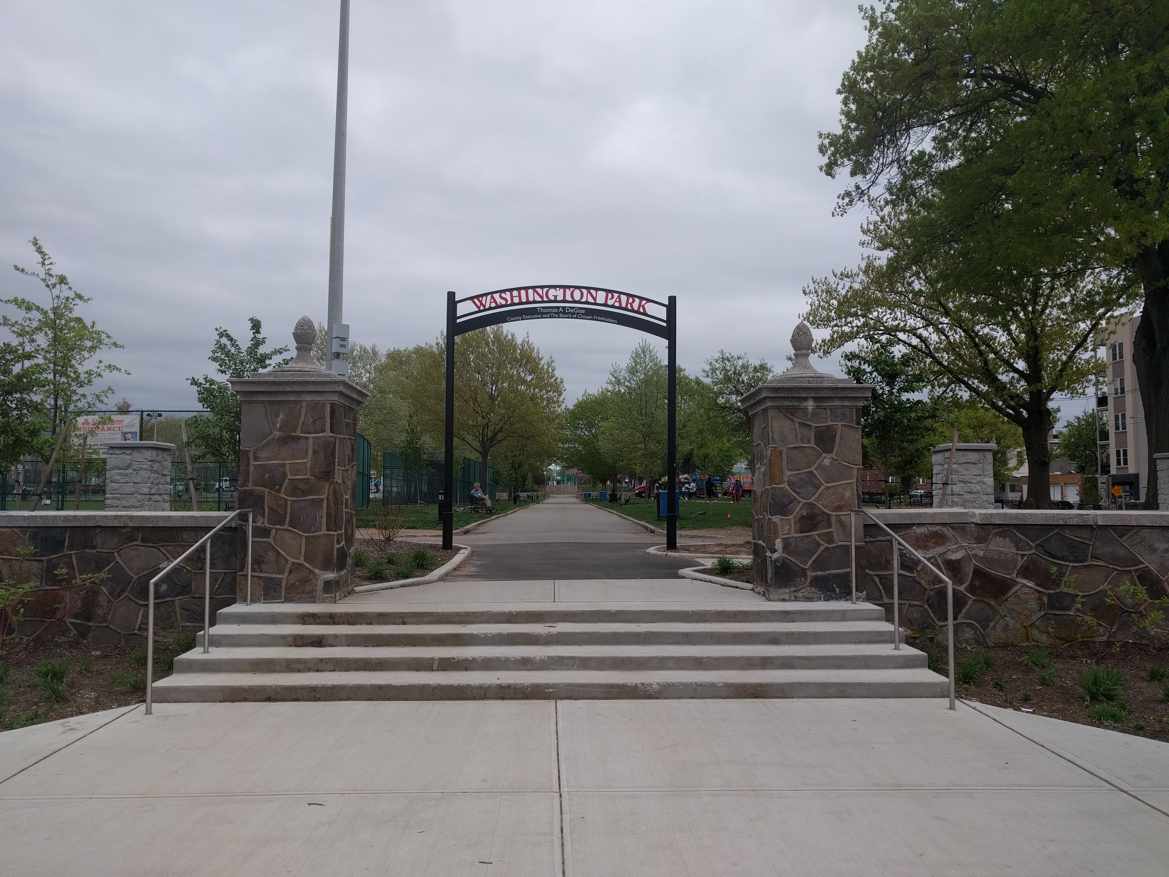 An entry arch to Washington Park on the border of Union City, and Jersey City NJ.